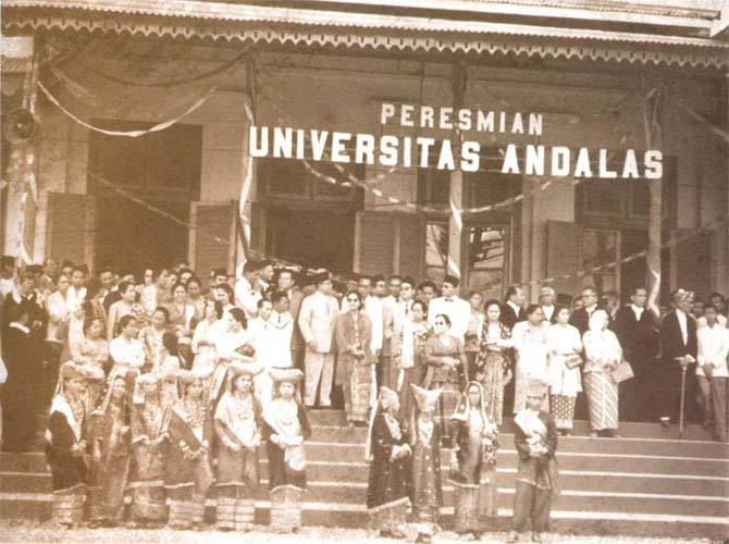 Inauguration of Andalas University at Bukittinggi, 13 September 1956